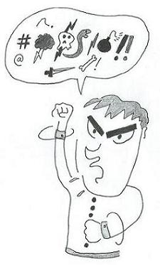 Cartoon of a person waving fist uttering conventionalized profanities ("grawlixes") in speech balloon...